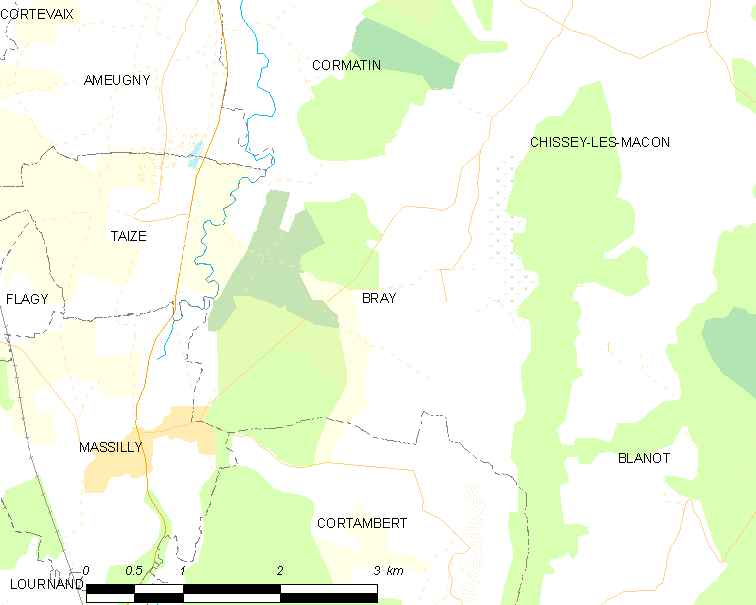 Map of French municipality